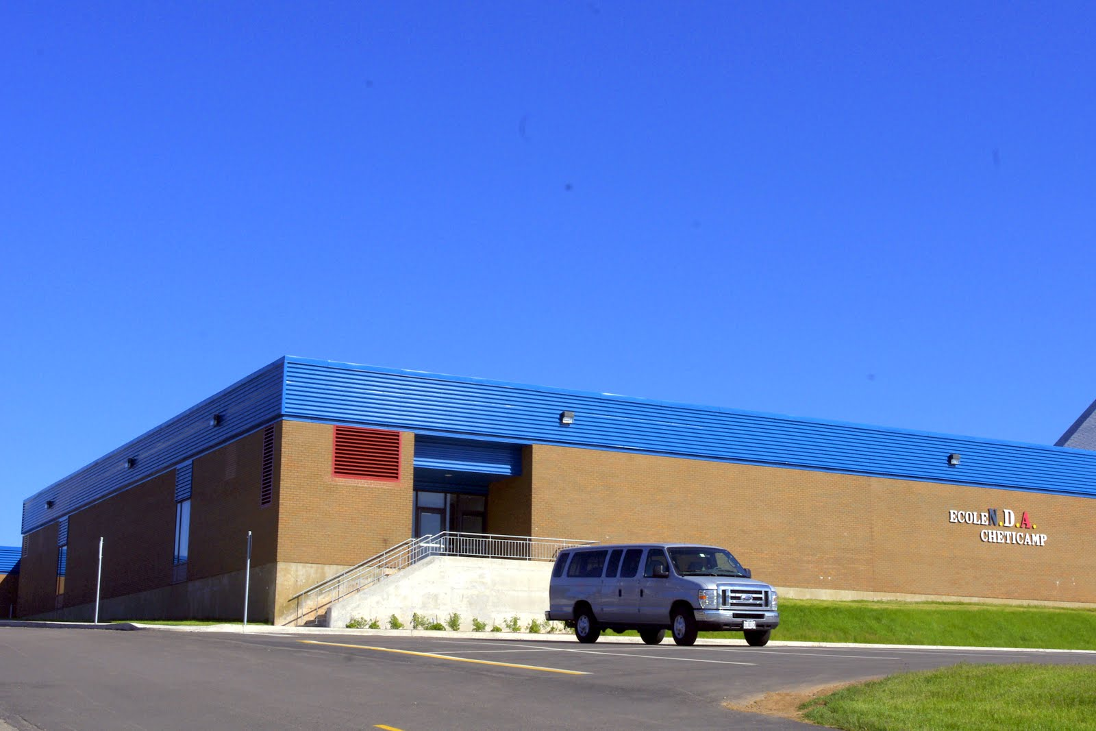 NDA school in Chéticamp.